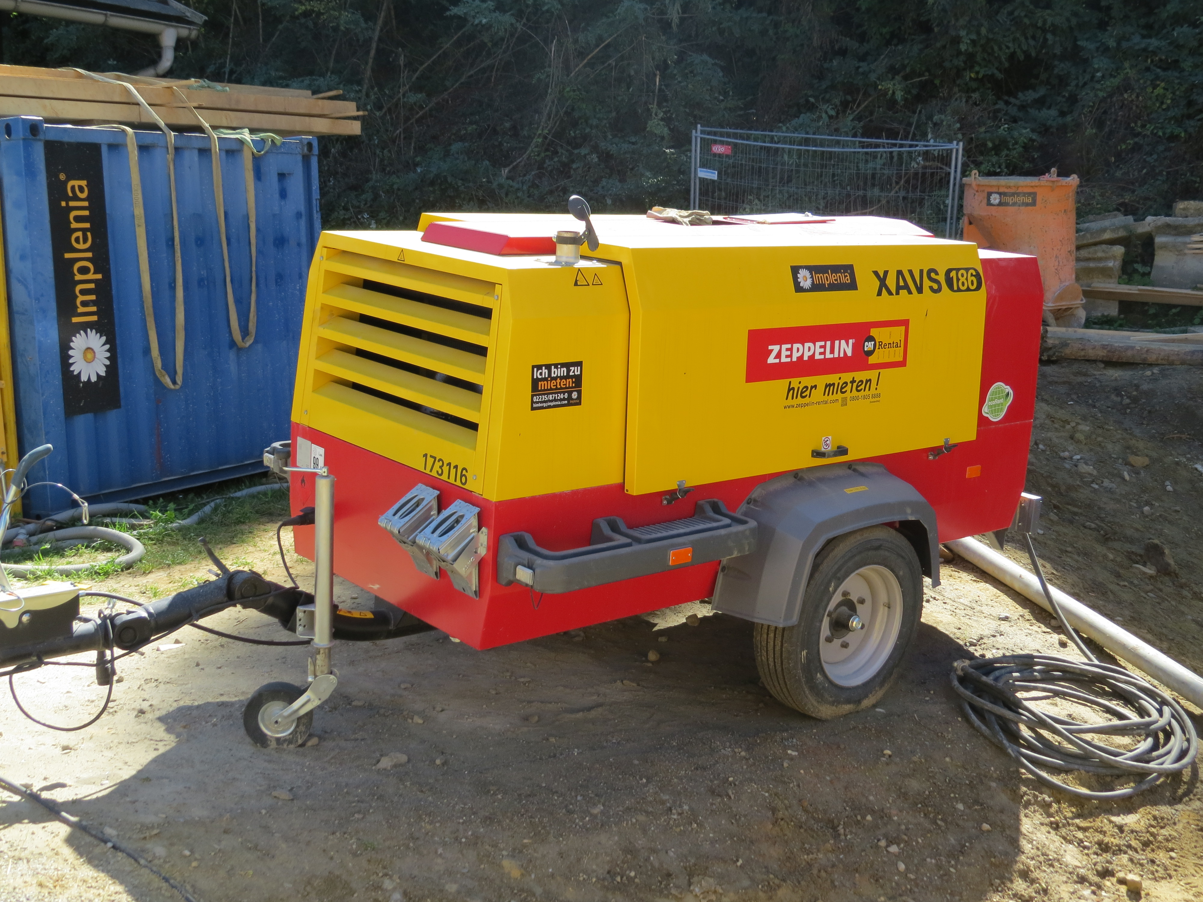 Atlas Copco portable compressors for construction work at Bahnhof Rekawinkel